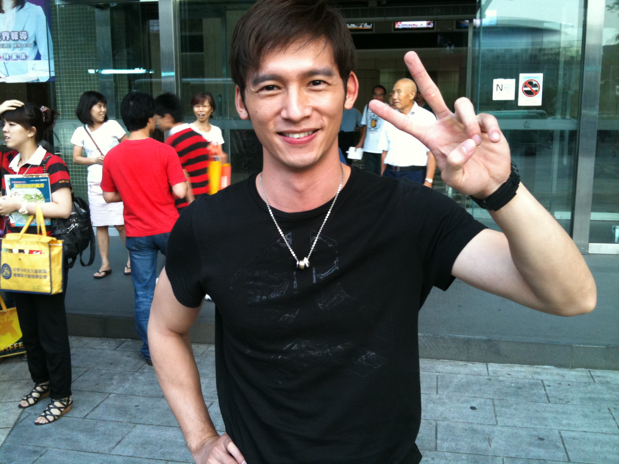 The Taiwanese actor ShenHao Wen (Chinese: 溫昇豪).